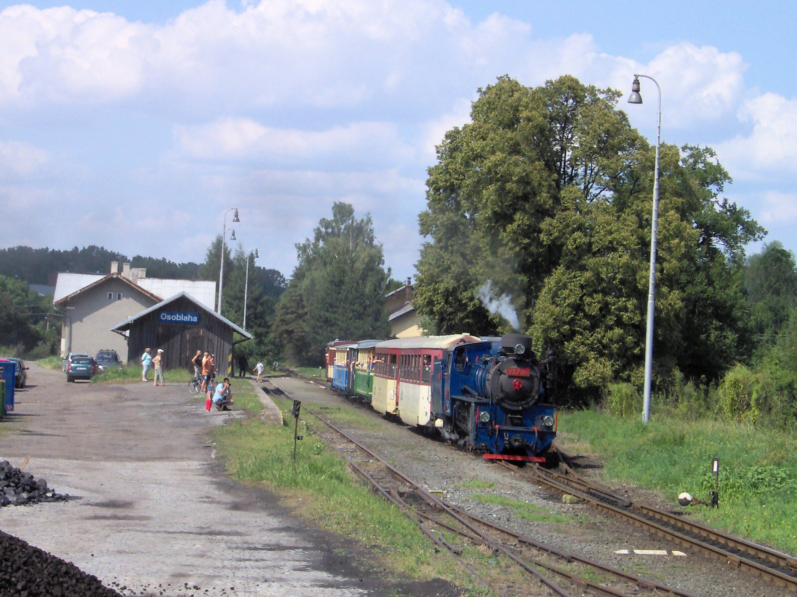 Narrow gauge steam locomotive U 57.001, Osoblaha, Czech Republic